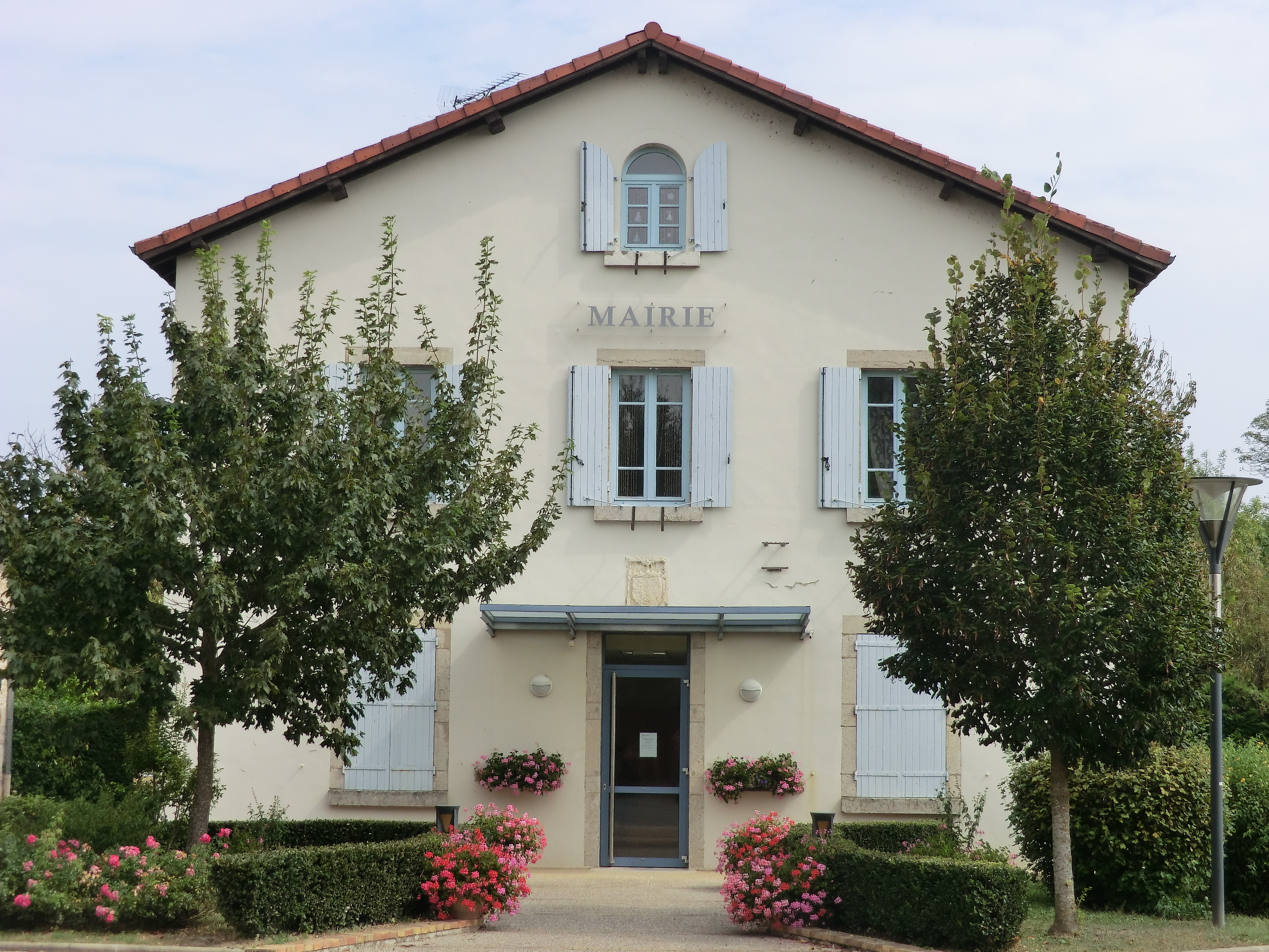 Town hall of Joyeux (Ain).